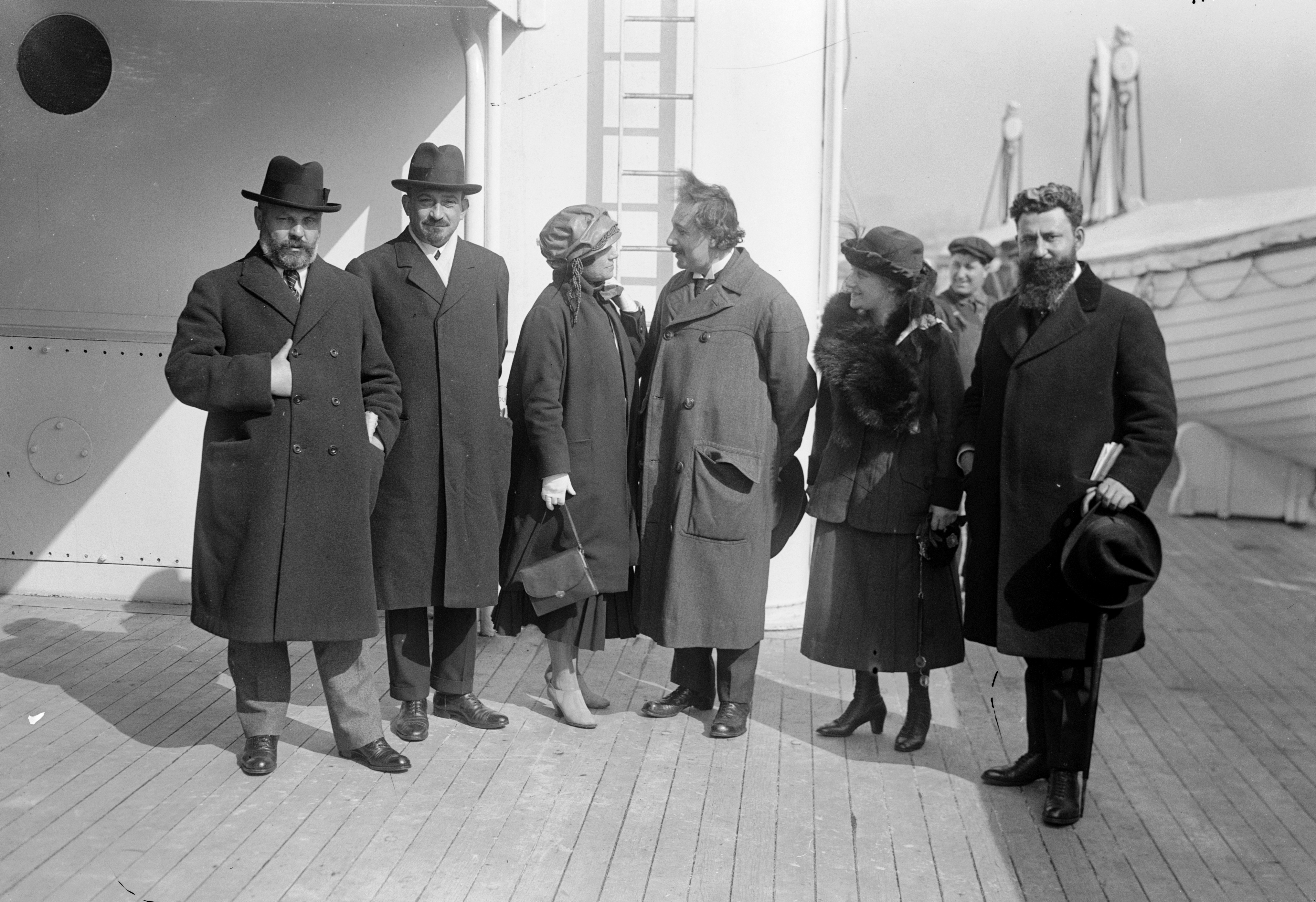 Ussischkin [Ussishkin], Weizmann & wife, Einstein & wife & Mossessohn